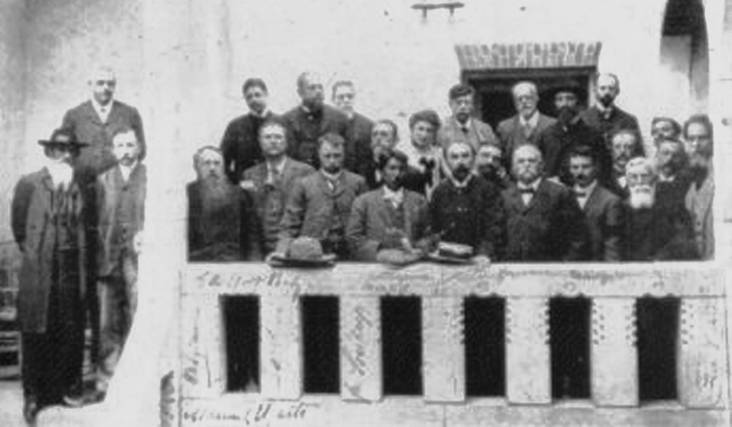 Dadabhai Naoroji attending the Socialist International Meeting at Amsterdam, 1904